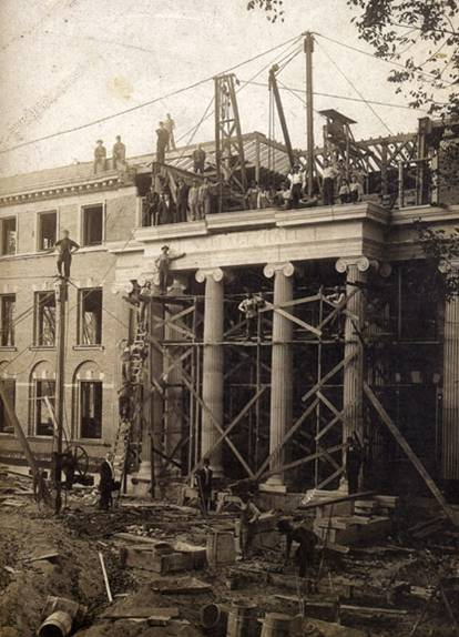 Named in memory of its first president, David A. Wallace, Monmouth College's flagship academic building, Wallace Hall, was constructed in 1908, following a fire that destroyed the college's historic Old Main.